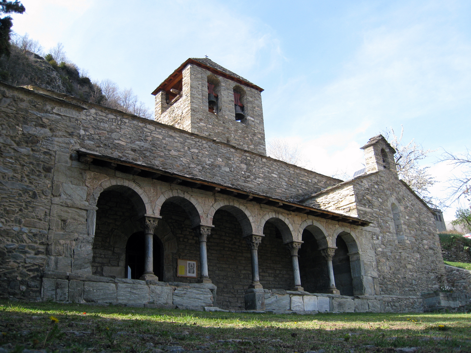 Romanic Church of Sant Jaume in Queralbs, Ripollès, Catalonia (Spain).